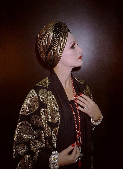 I Snapped This Shot Of Glenn Almost 20 Years Ago Back Stage At The Schubert Theatre During A Dress Rehersal For SUNSET BLVD